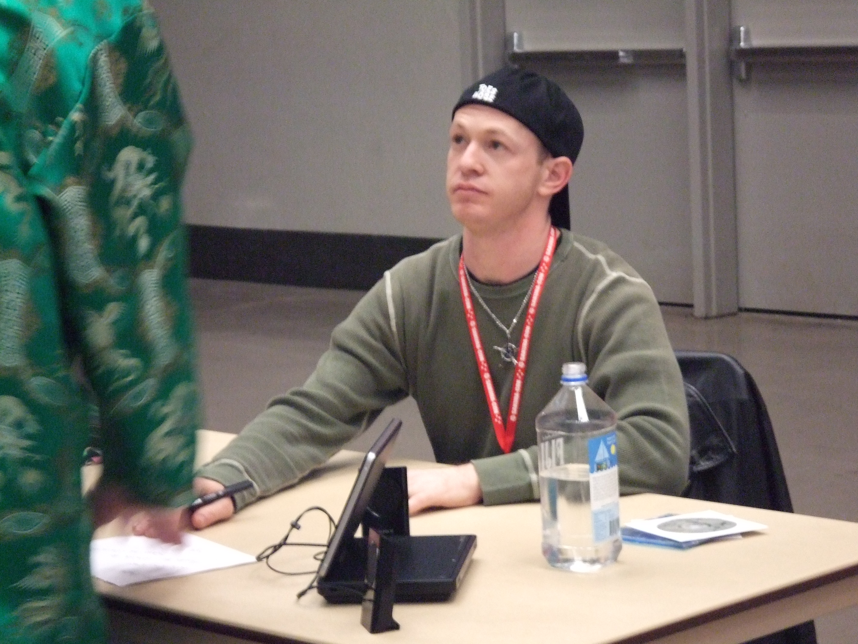 Voice actor Derek Stephen Prince at Sakuracon 2008.